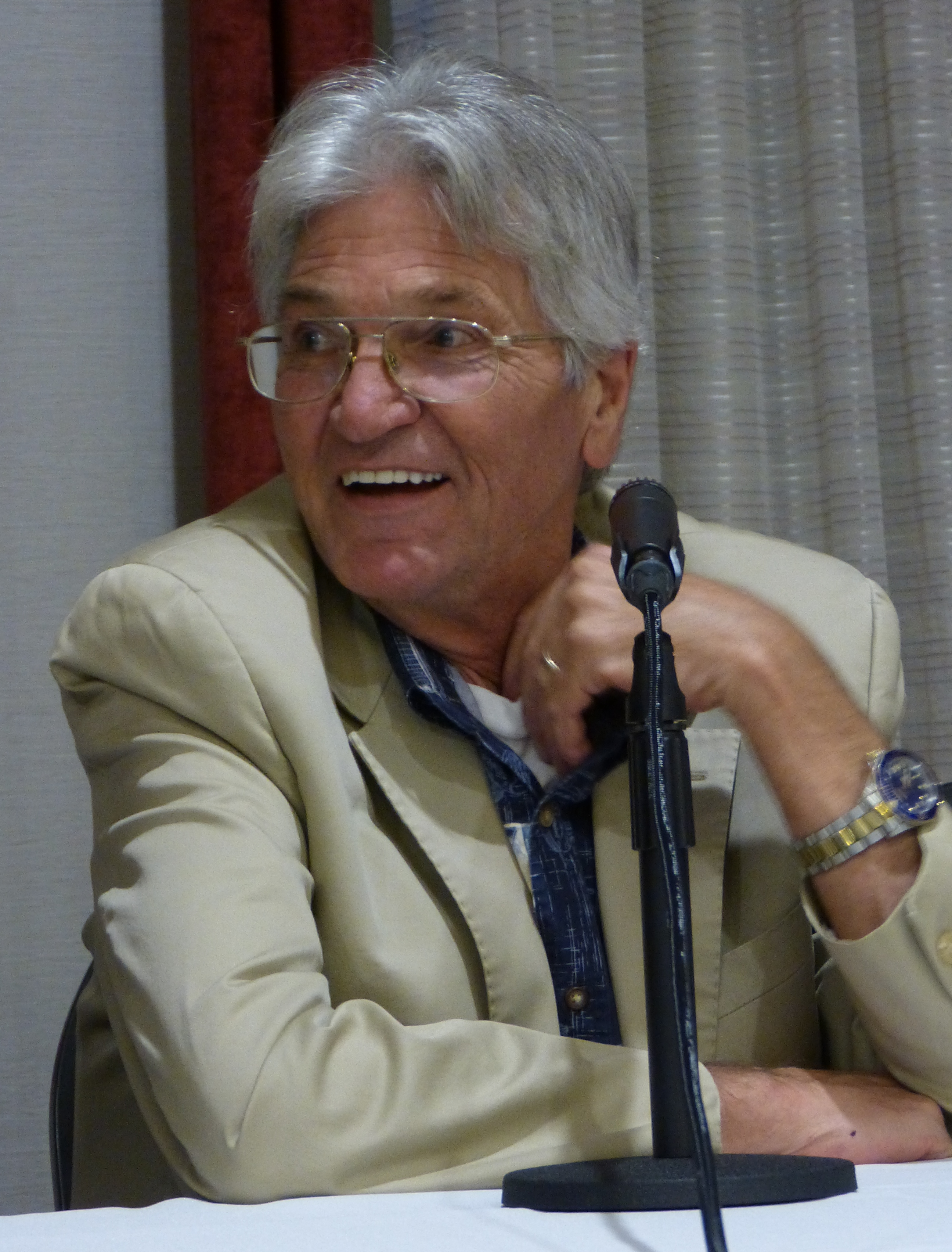 A photo of Paul Petersen in 2015.